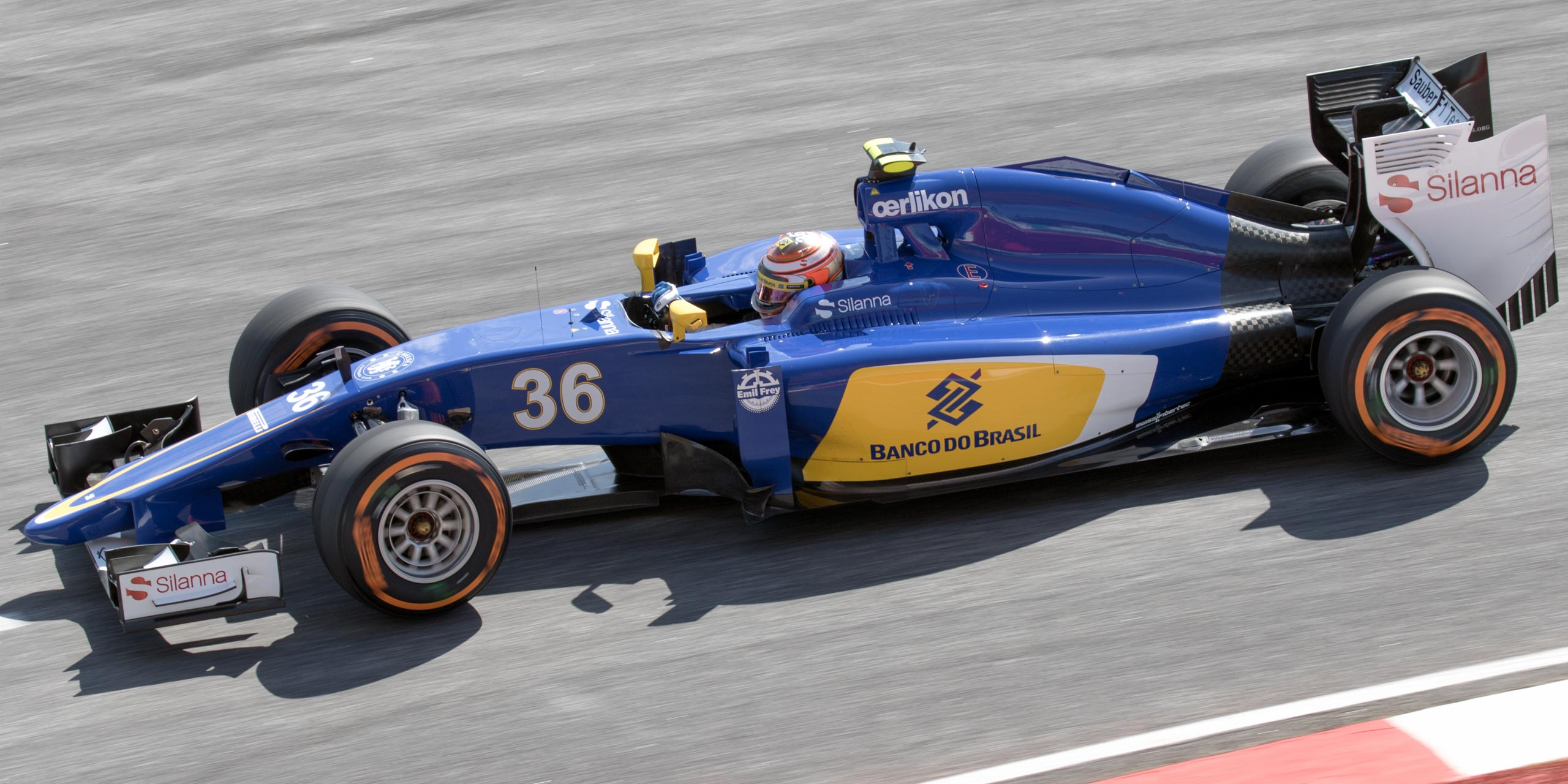 Formula One 2015 Rd.2 Malaysian GP: Raffaele Marciello (Sauber)